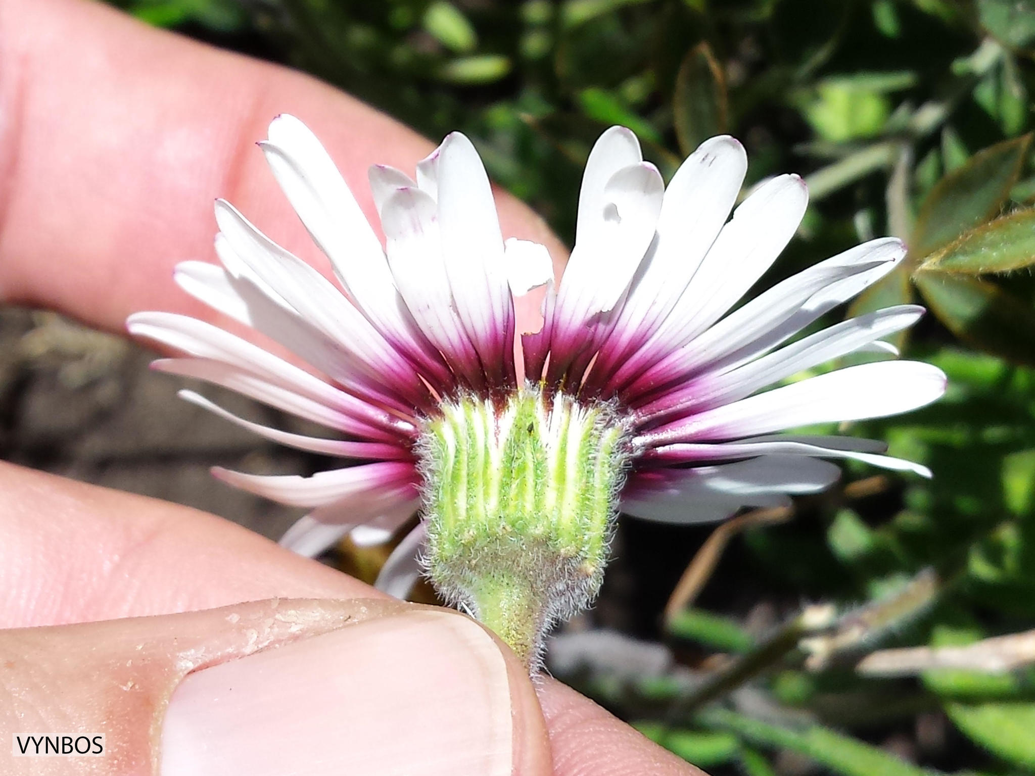 Saldanha Bay daisy, Felicia elongata, photographed by Chris Vynbos, on 21 September 2014, at Steenbok Trail, Postberg, West Coast National Park, Malmesbury County, Western Cape province of South Africa